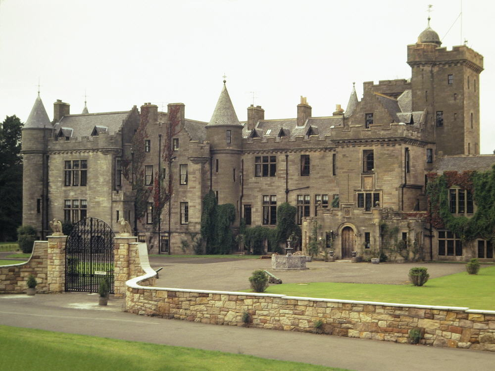 Glenapp Castle near Ballantrae in South West Scotland, south facade